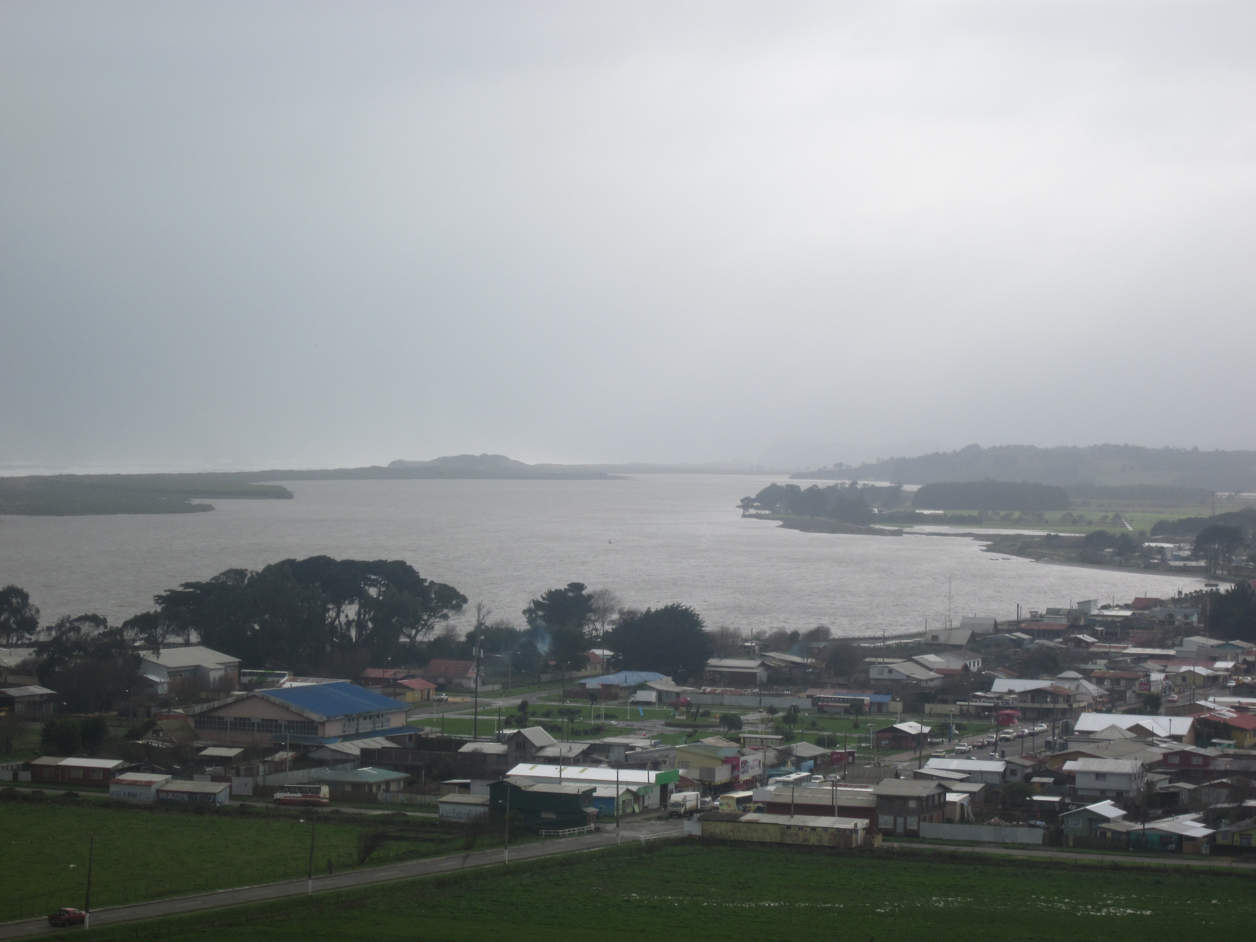 View of Puerto Saavedra in June (Winter) 2012.